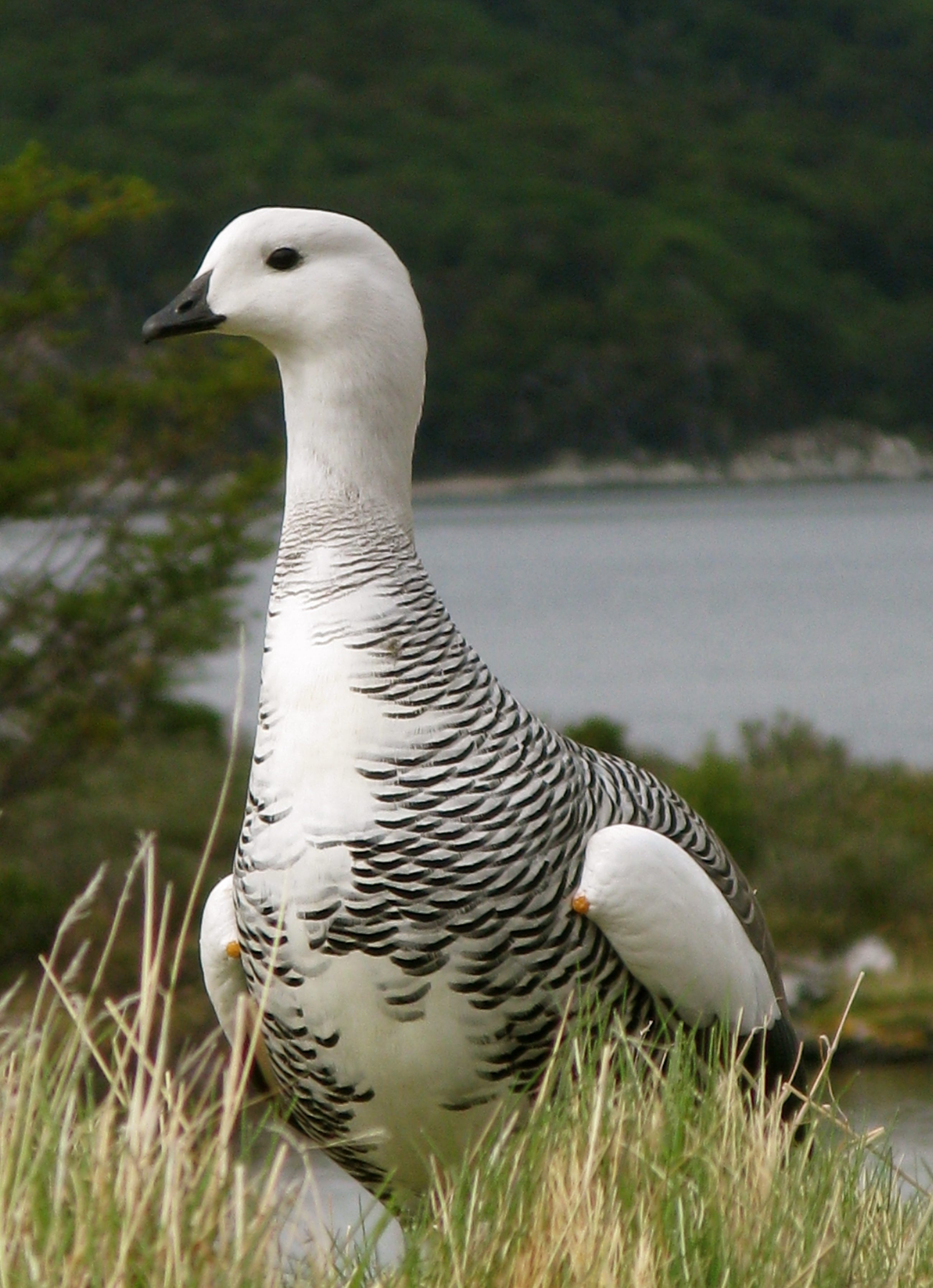 Magellan Goose, (Chloephaga picta), Male - Tierra del Fuego - Patagonie